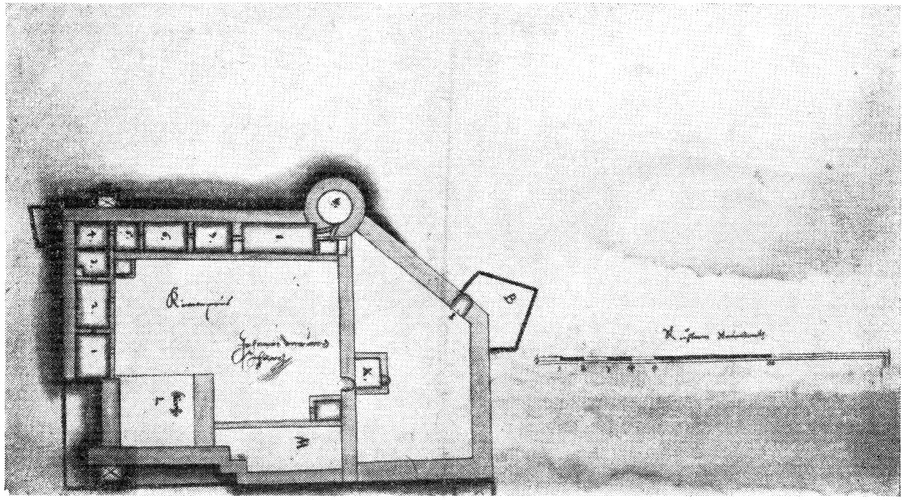 Plan of the Kirumpää Castle in XVII century. Made for Swedish Army. North bottom, south top